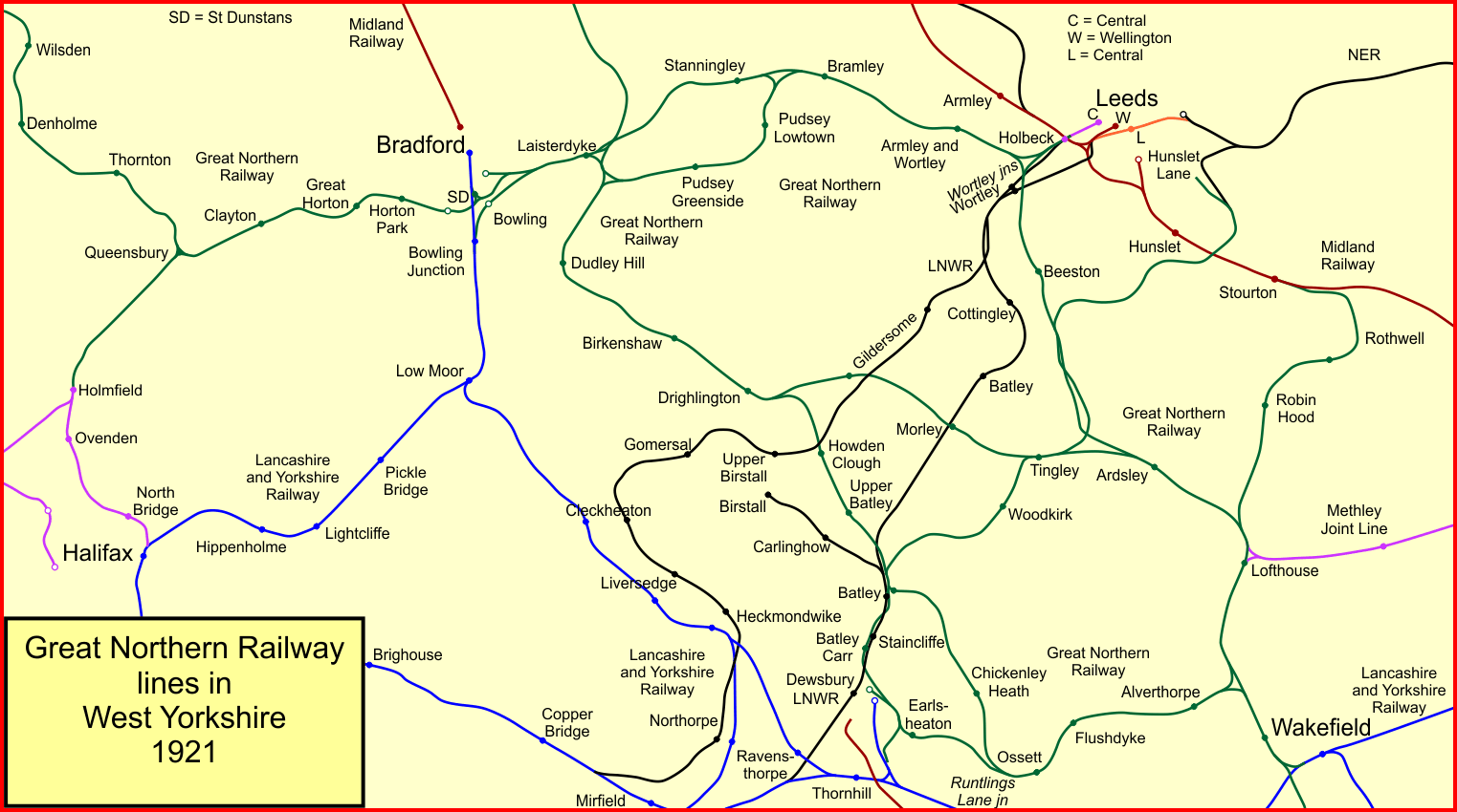 System map of the Great Northern Railway lines in West Yorkshire, England, in 1921